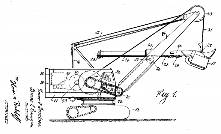 Figure 1 of United States Patent 2,543,765 by T.O. Davidson et al. - Winch for convertible draglines and shovels.